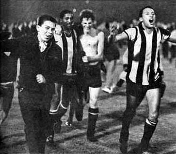 Peñarol players celebrating the Copa Libertadores won to River Plate.